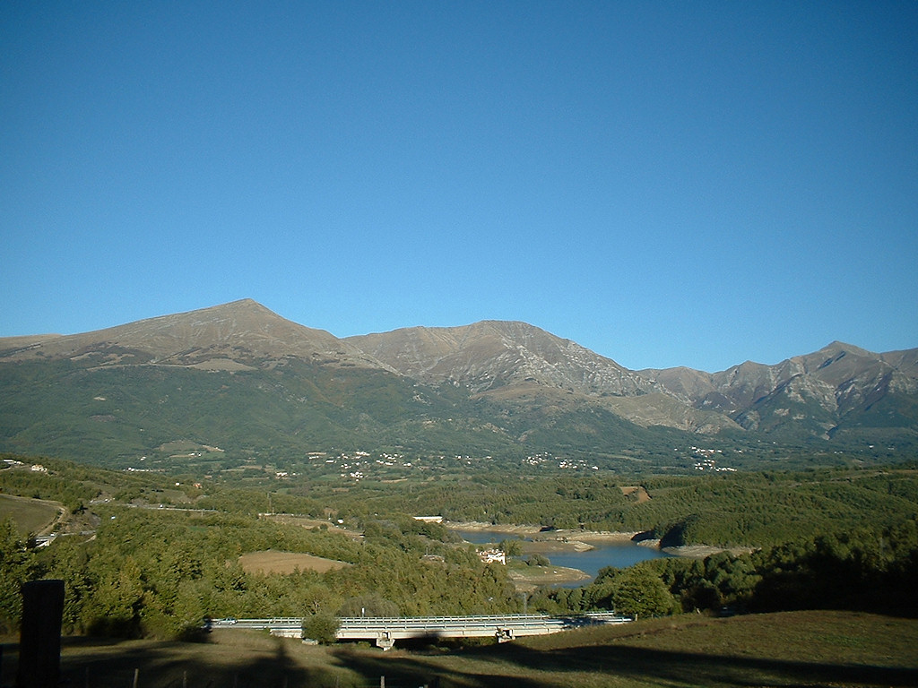 The area of Amatrice with the litte settlement Conche near Reservoir 'Lago di Scandarello' (in the middle) and the village Villa San Lorenzo a Flaviano in the far (located at the basis of mountain Pizzo di Sevo, the peak of Monti della Laga in the left of the photo - in the right is Monte Gorzano), with some other little villages (frazioni) of Amatrice near the river Tronto. In the Foreground you see a bridge of the road SS 4 to Rome ( ← links to Commons pages with more photos)